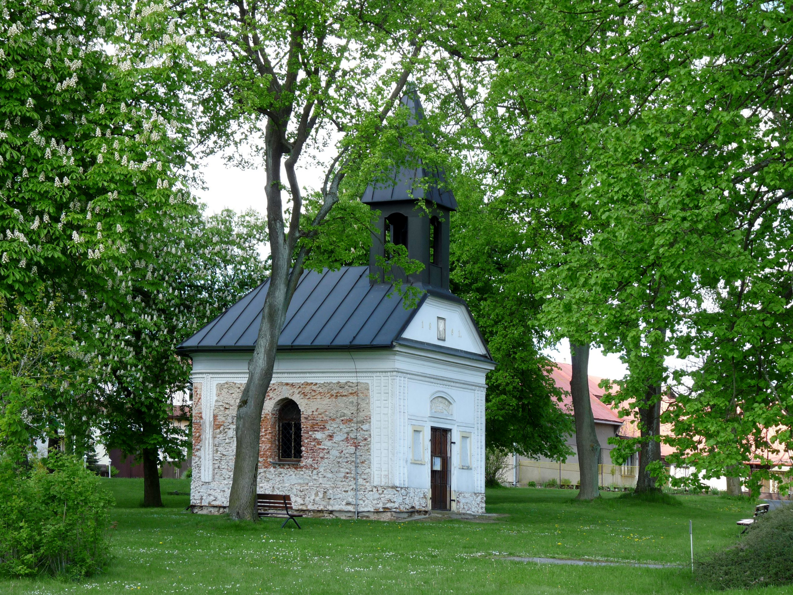 Chapel in the village of Vepřová, Žďár nad Sázavou District, Vysočina Region, Czech Republic.